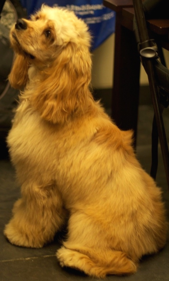 American Cocker Spaniel sitting. Pic taken in Mumbai, Cocker in pic is named Coco Singh